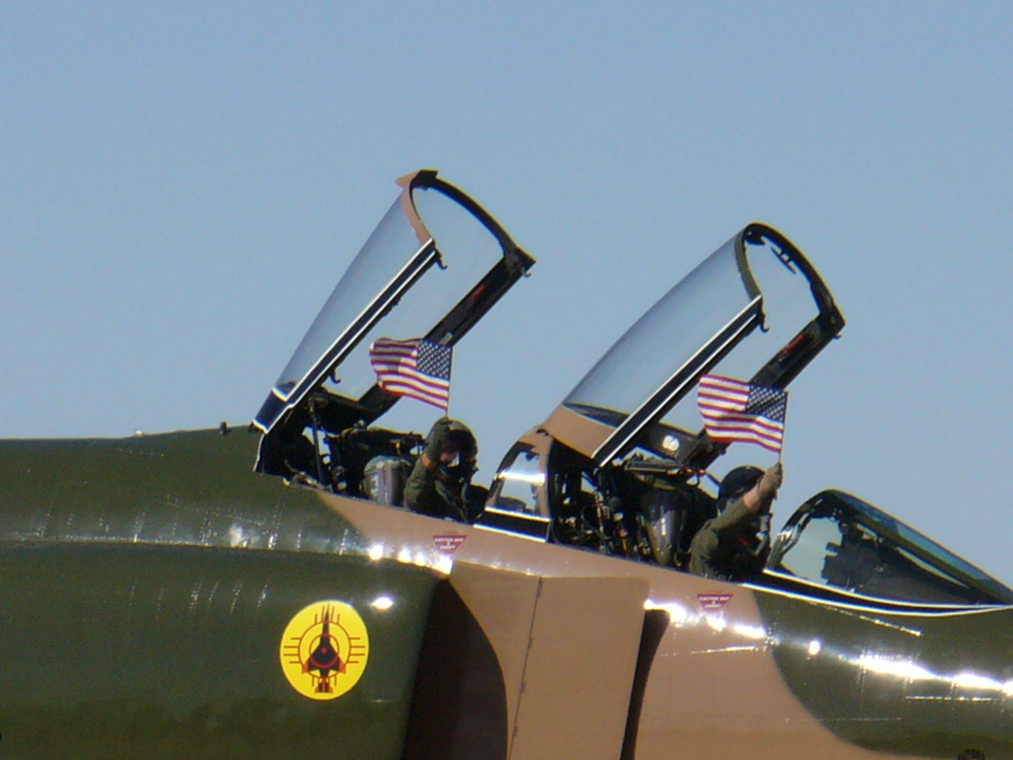 The pilots of F-4 who raises Flag of the United States when taxiing after landing. (At Holloman Air Force Base on October 28, 2007)